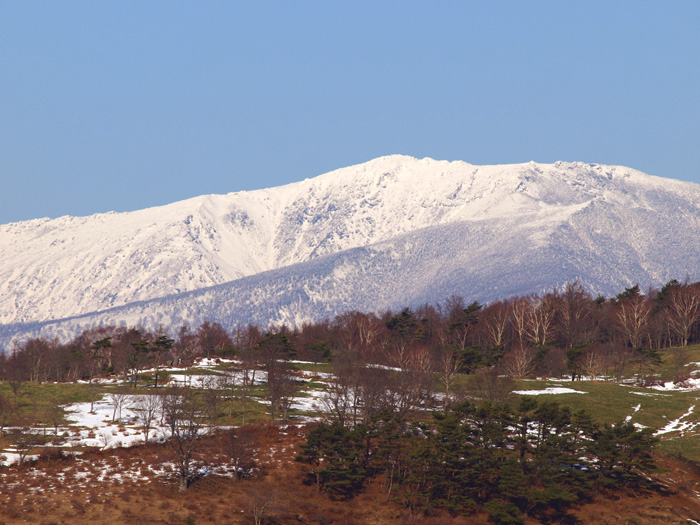 The South side of Mount Hayachine seen from Mount Takashimizu in Iwate Prefecture, Japan.